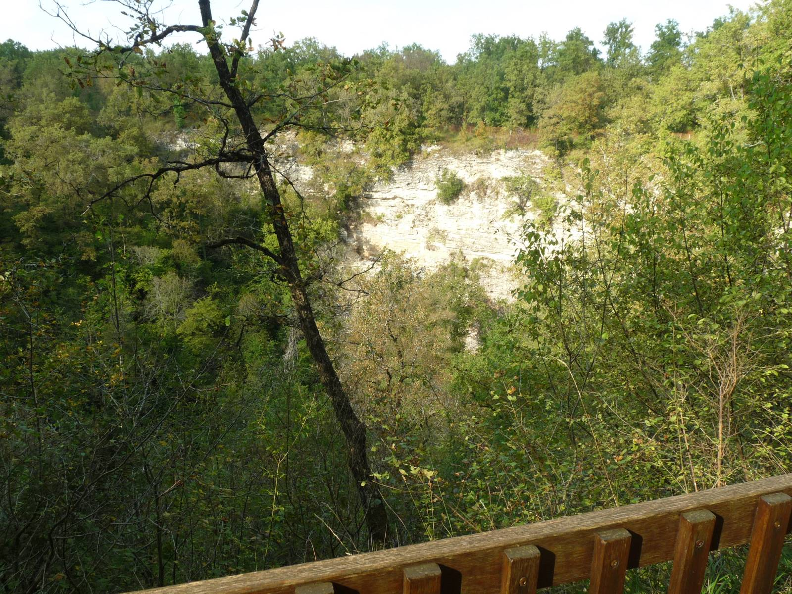 Grande Fosse (karstic depression), Braconne forest, Charente, SW France